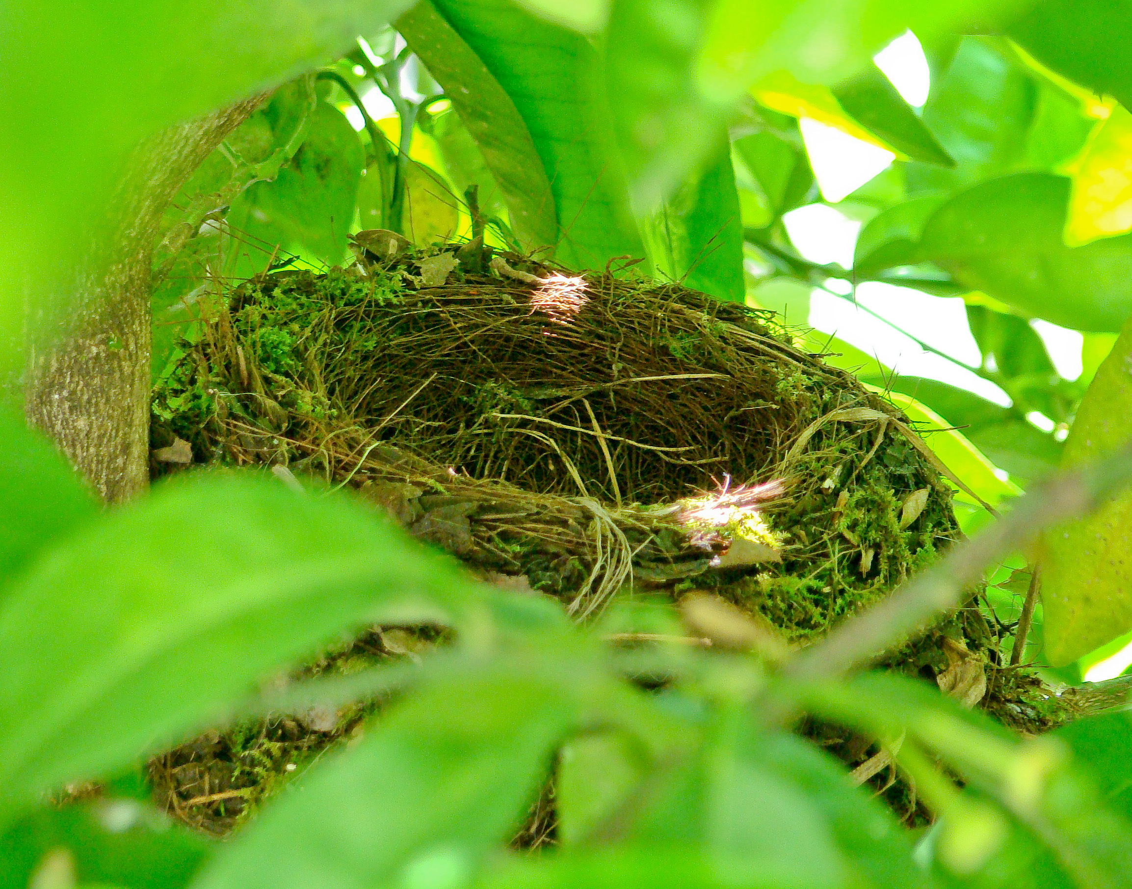 Nest of rufous-bellied thrush (Turdus rufiventris)